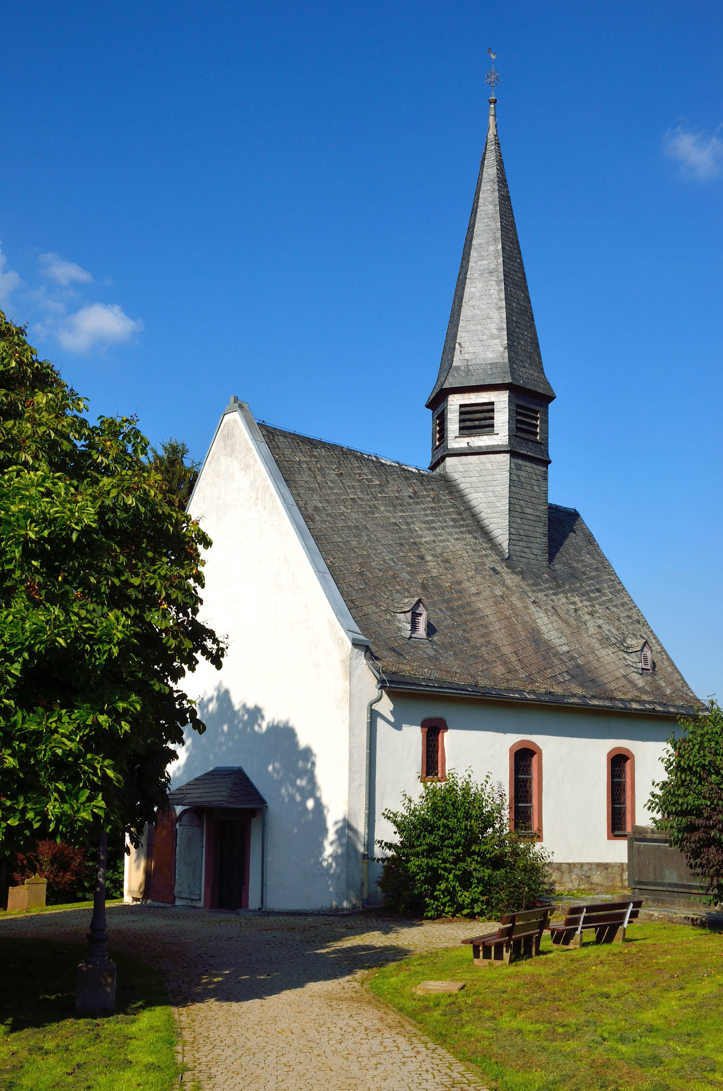 The evangelic church of Ossenheim, Friedberg, Hesse